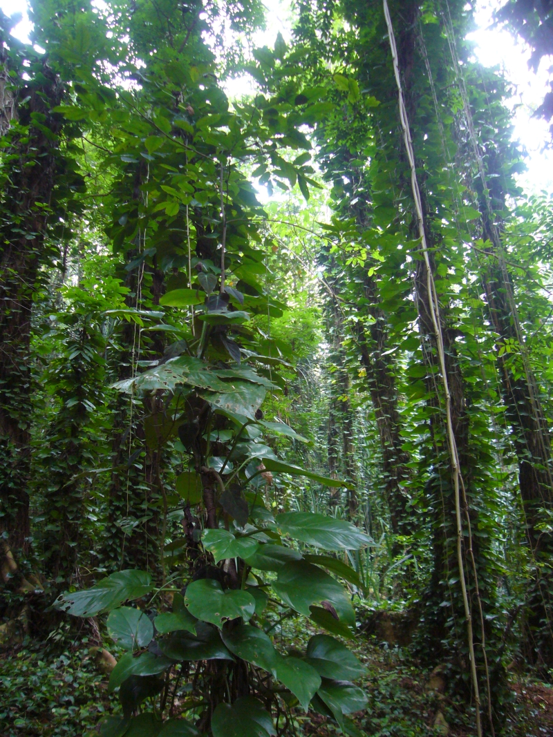 Author: Nyanatusita. Source: camera. Contents: Invasive species Epipremnum aureum overgrowing Udawattakele